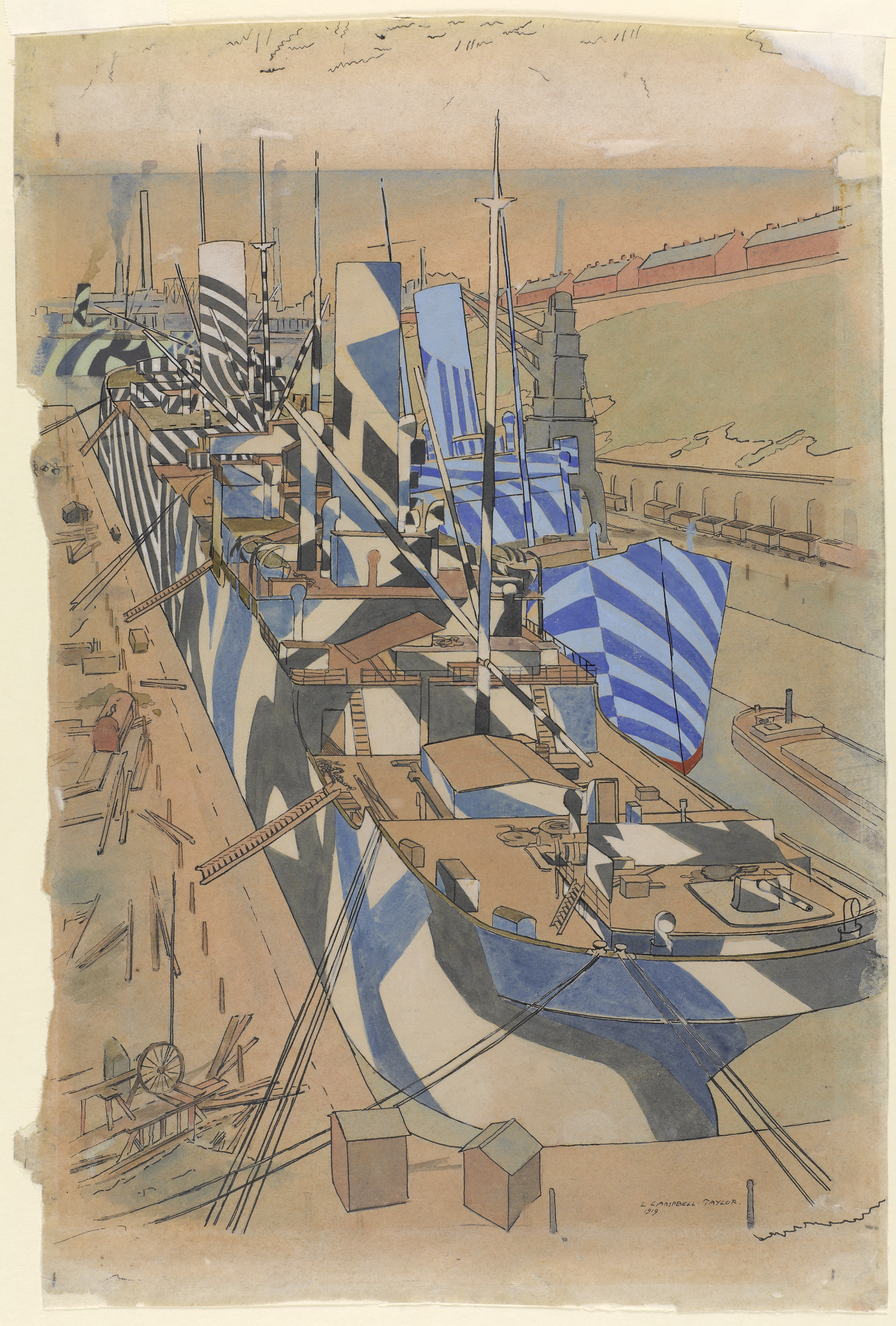 Herculaneum Dock, Liverpool image: 'Dazzle' painted merchant ships in dock. The ship in the foreground is painted in two different types of camouflage. The section closest to the viewer was used in the early years of the war; while the stripe design came in later. Both the other ship moored on the far side, and another in the background are painted in this later design. There are a few figures visible on board the deck of the central ship, and equipment scattered along the quayside, possibly used for painting the exterior.